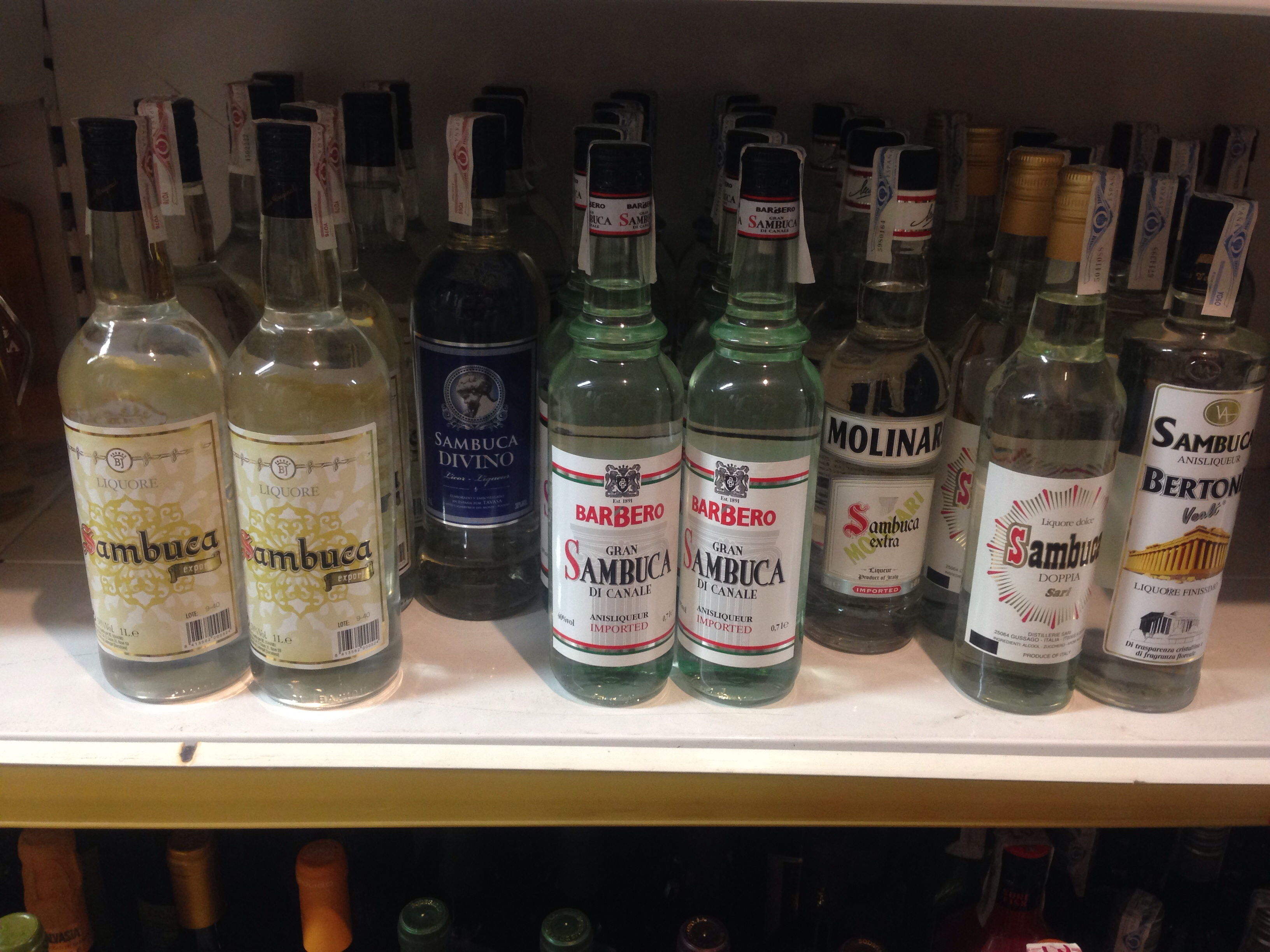 A row of bottles of sambuca.